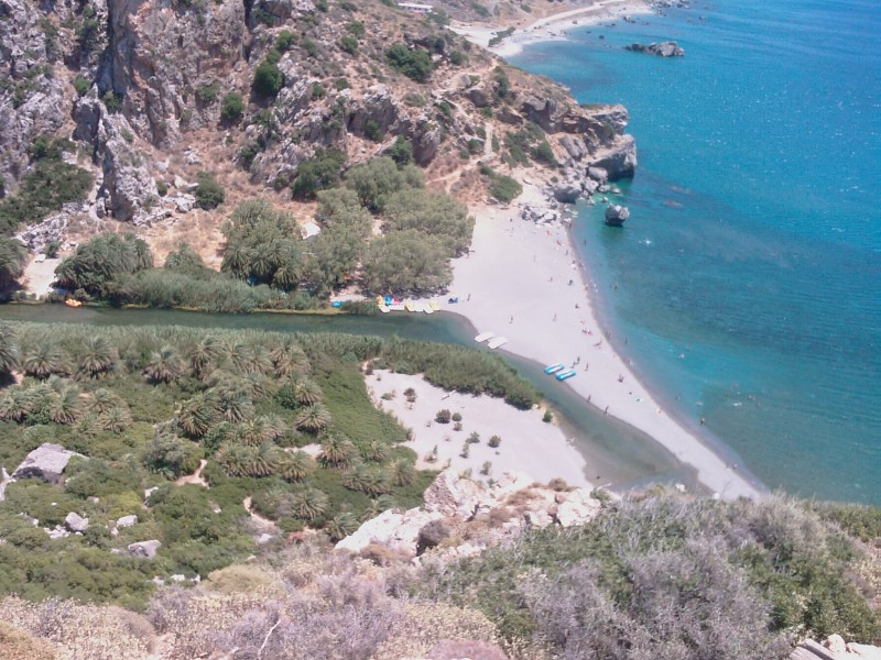 Preveli beach, Crete, Greece